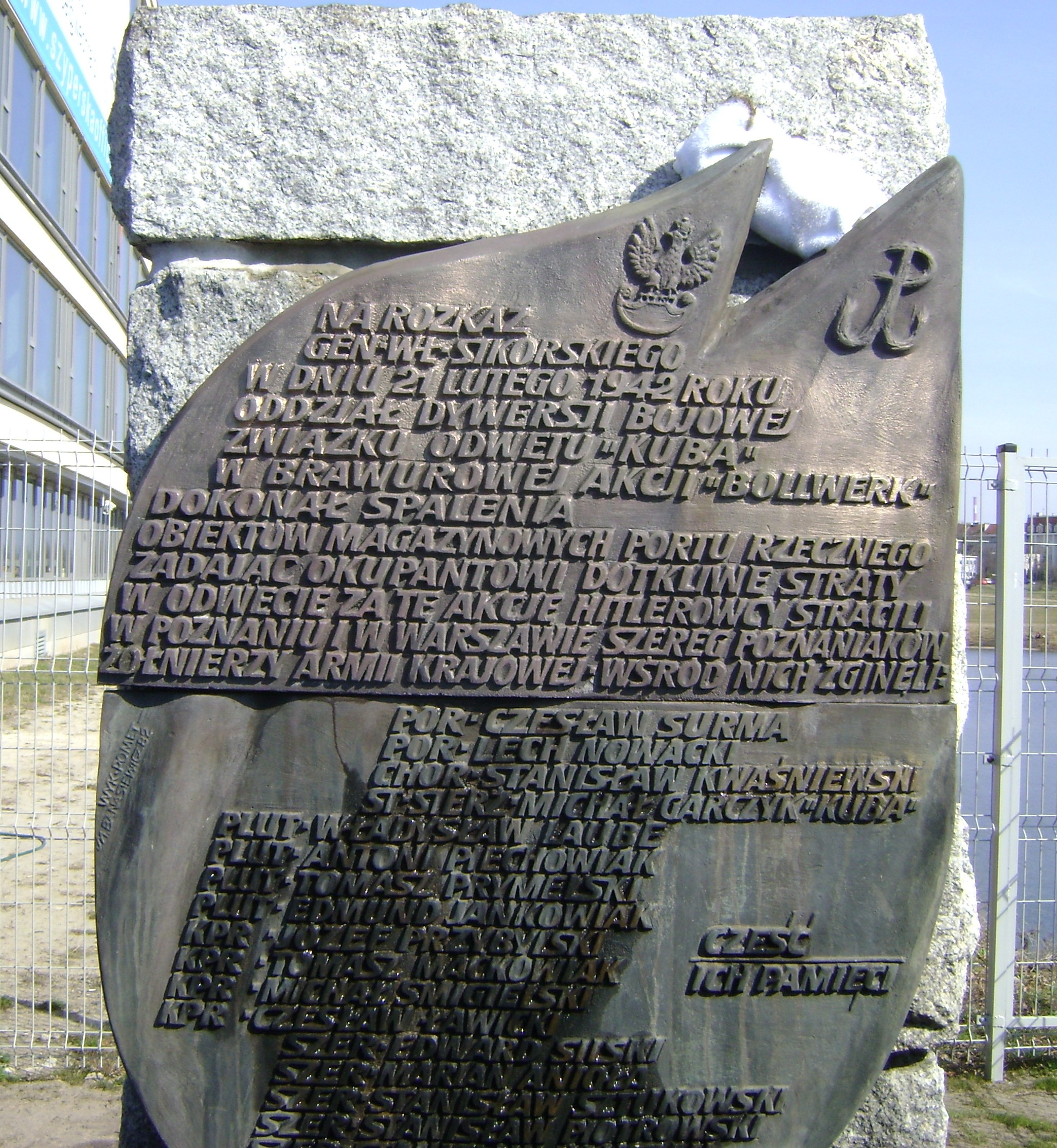 View of the Monument to Action "Bollwerk"